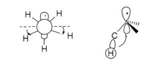 erwrfads